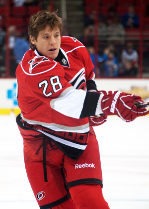 Alexander Semin of the Carolina Hurricanes skates during warmups in a game against the Ottawa Senators on February 1, 2013.